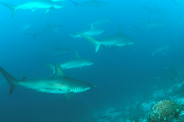 School of Hammerhead Sharks, Wolf Island, Galapagos Islands, Ecuador.